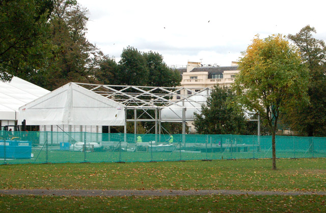 Preparing for Frieze Art Fair, Regents Park (6) Marquees being erected on Marylebone Green, an area of Regents Park, in early October 2009. The marquees will house Frieze Art Fair. This annual event bills itself as "London's only international contemporary art fair..." and "...showcases new and established artists to an international audience." It will be open from 14 to 18 October. More details from the website at .